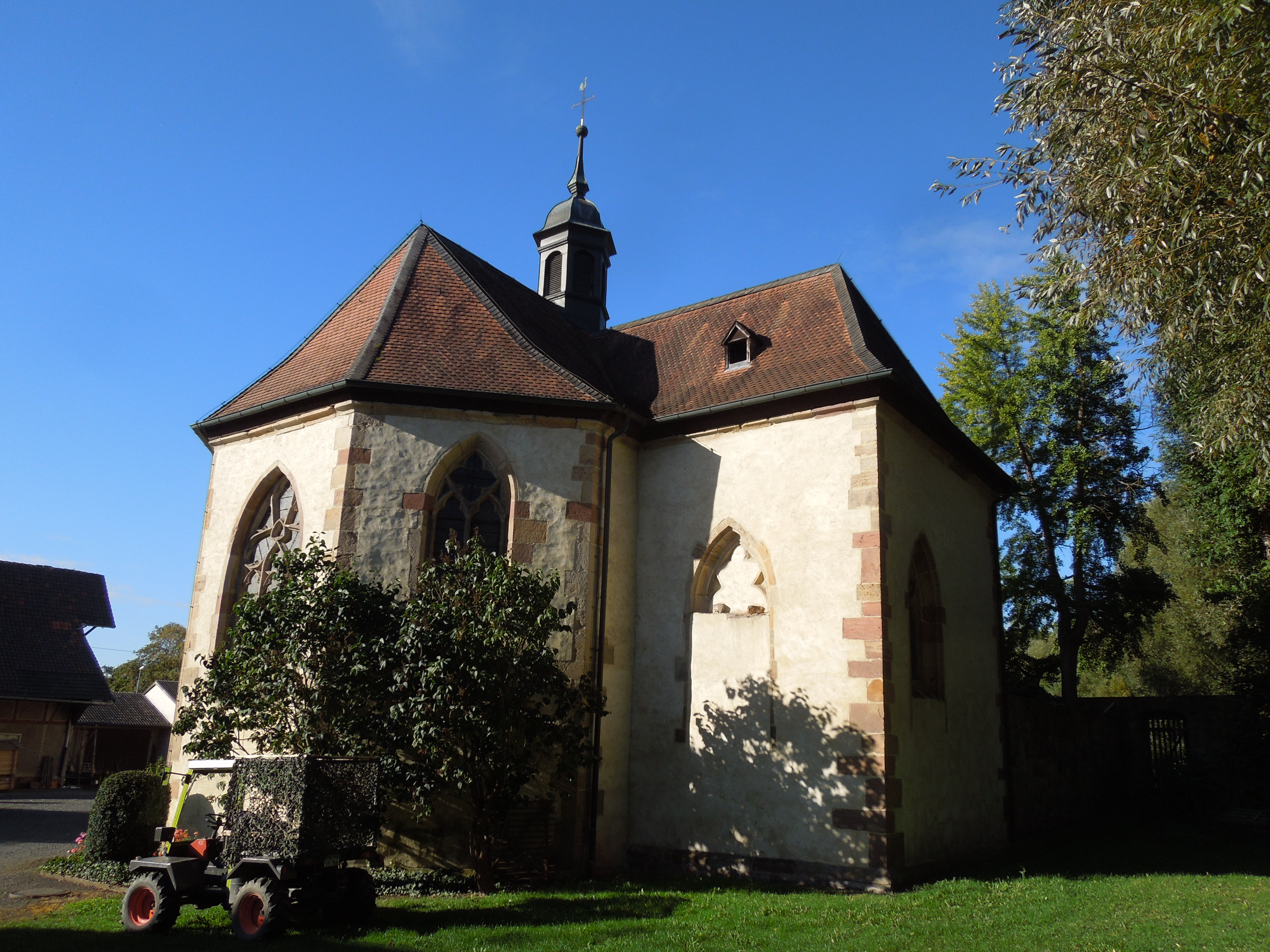 Fritzlar: Heilig-Geist-Kapelle seen from the Northeast